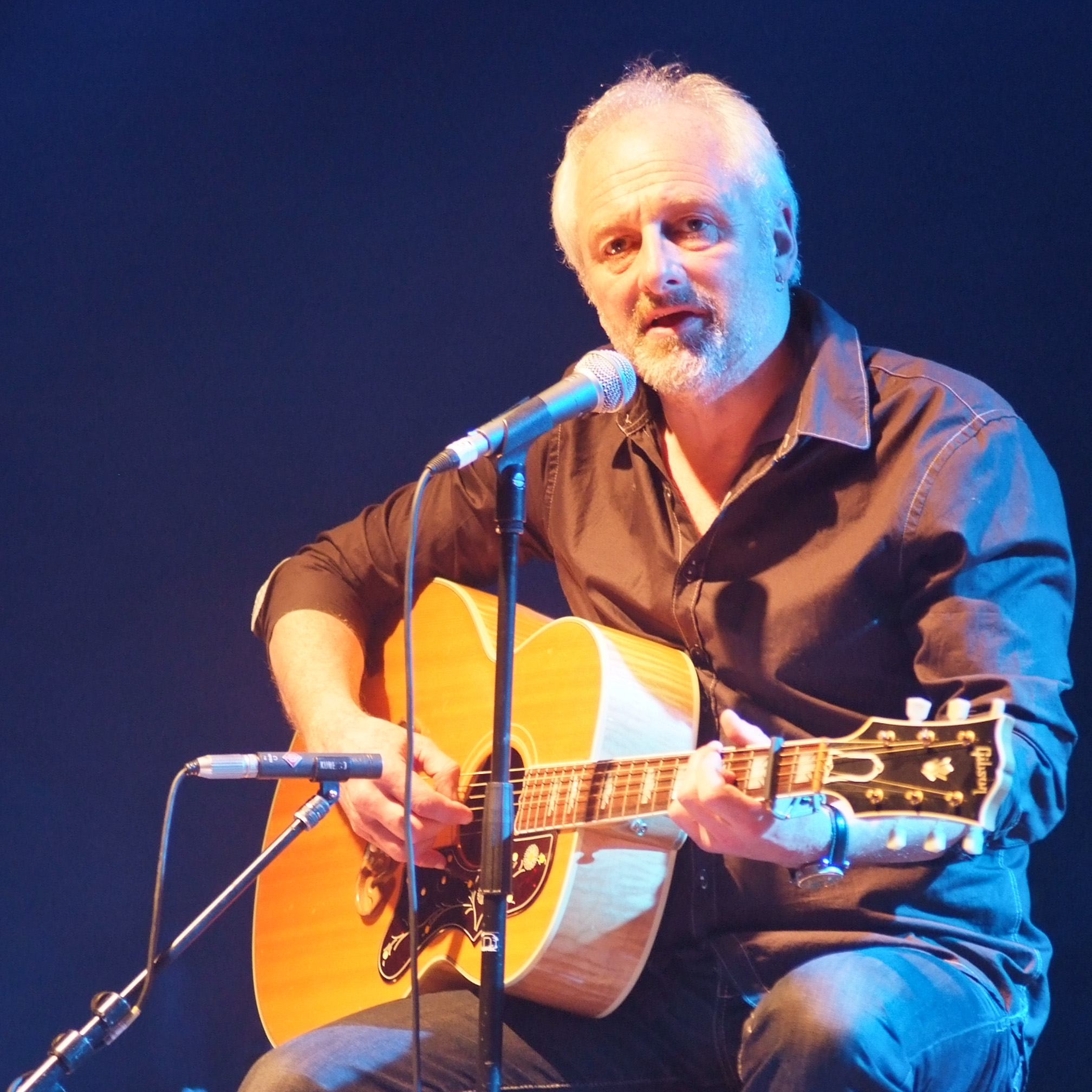 Danish singer/songwriter Allan Olsen at Danish Music Awards Folk 2008 in Tonder